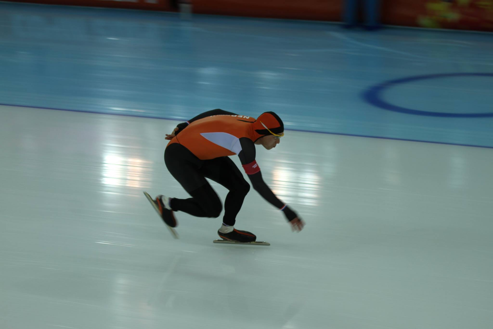 Gold medal winner Stefan Groothuis during his race